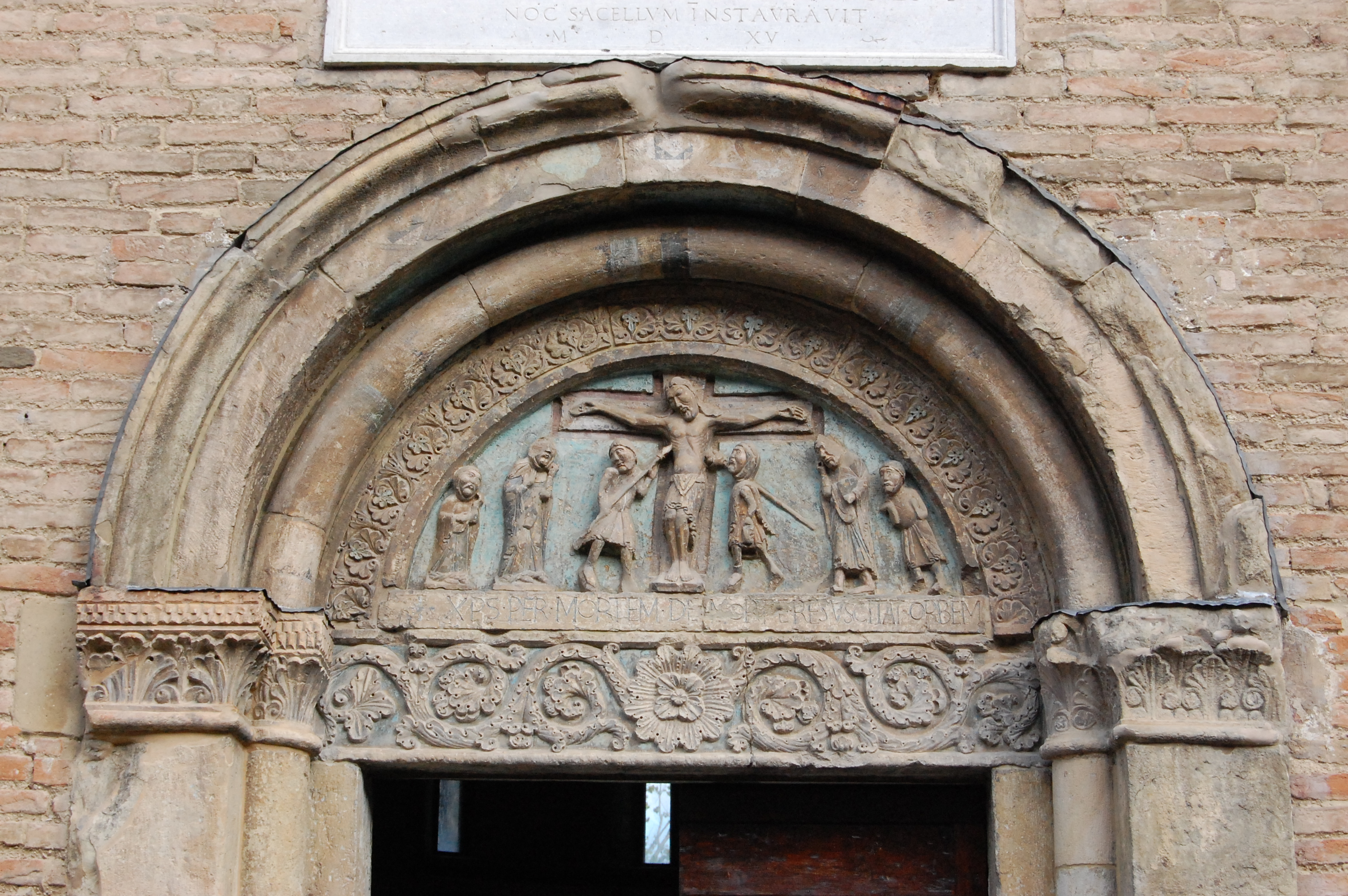 Sculpture of the door of the Sagra, romanesque church in Carpi, Modena.